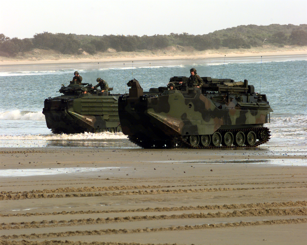 Two U.S. Marine Corps Amphibious Assault Vehicles emerge from the surf onto the sand of Freshwater Beach, Australia, during amphibious assault landing operations of Exercise Crocodile '99 on Oct. 1, 1999. Exercise Crocodile '99 is a combined U.S. and Australian military training exercise being conducted at the Shoalwater Bay Training Area in Queensland, Australia. DoD photo by Petty Officer 1st Class Daniel E. Smith, U.S. Navy. (Released) 991001-N-6234S-005